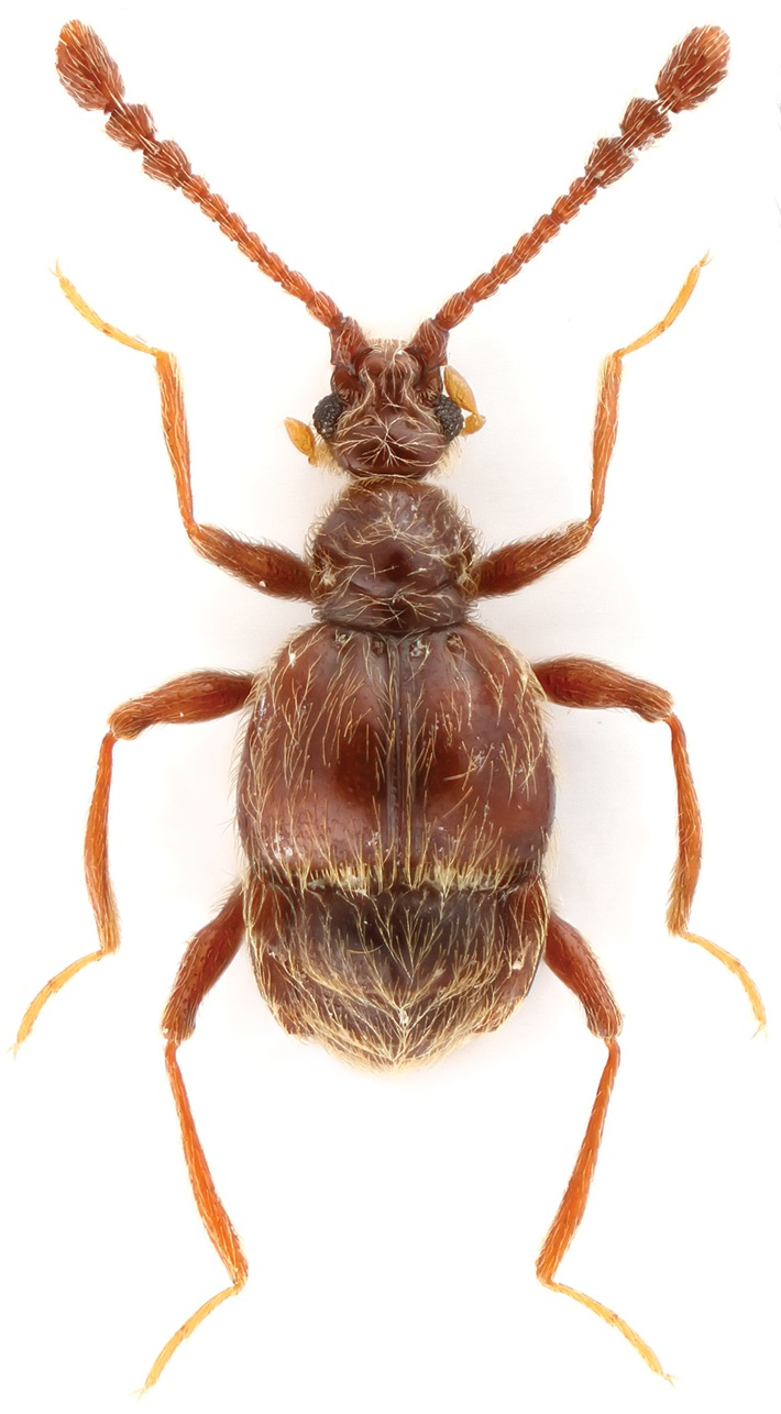 Tyrodes jenisi, male, dorsal habitus.